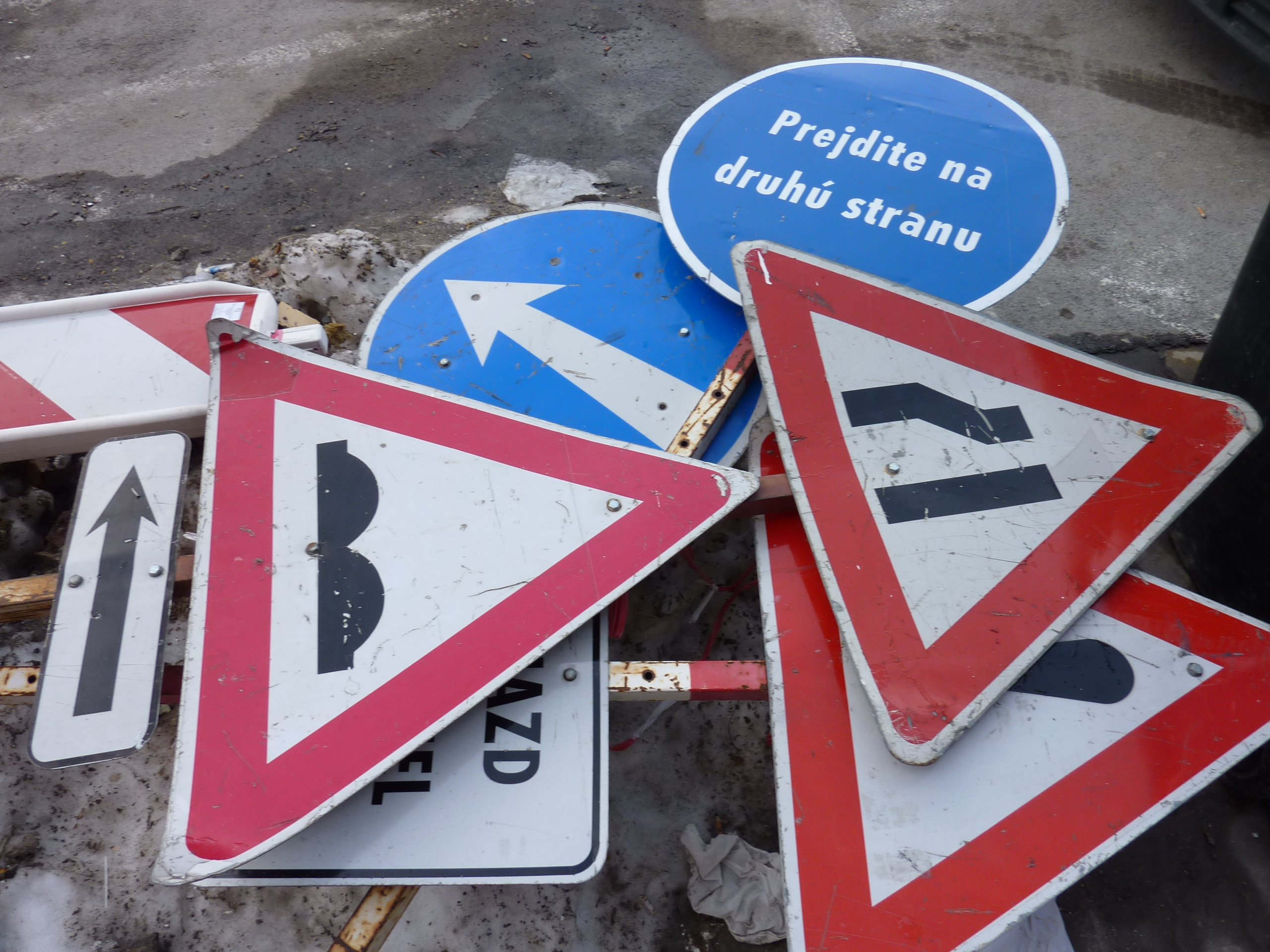 assorted road signs lying on the ground at Dunajská street in Bratislava, Slovakia